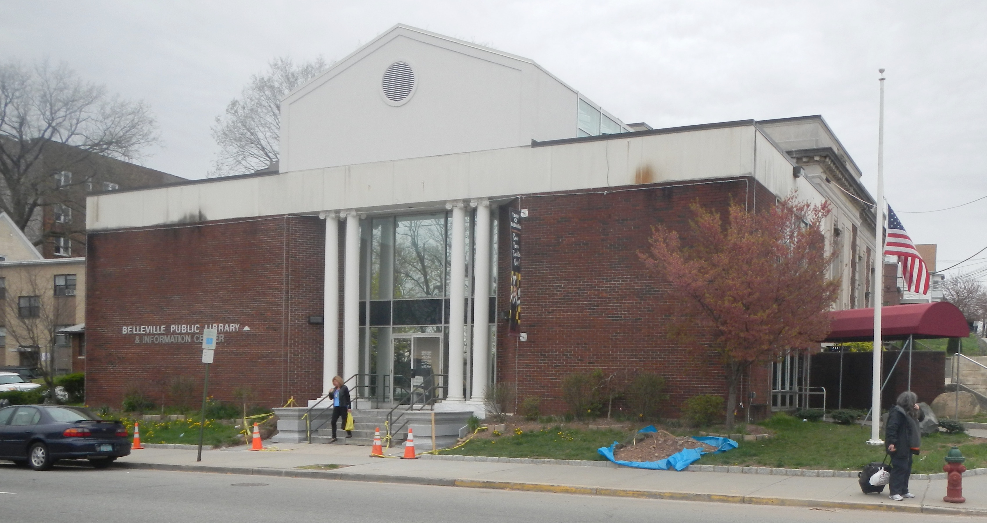 Looking west at library on a cloudy afternoon.